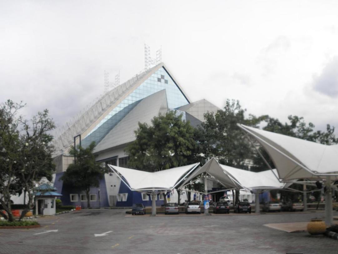 The National Art Gallery of Malaysia in Kuala Lumpur.